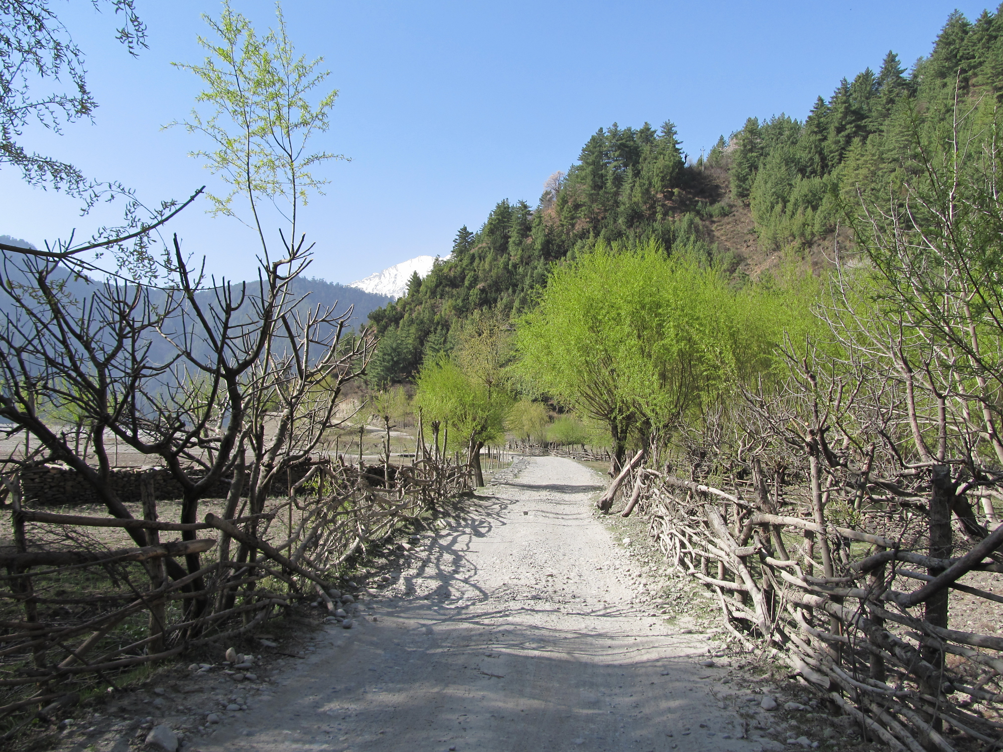 Coming through Khobang